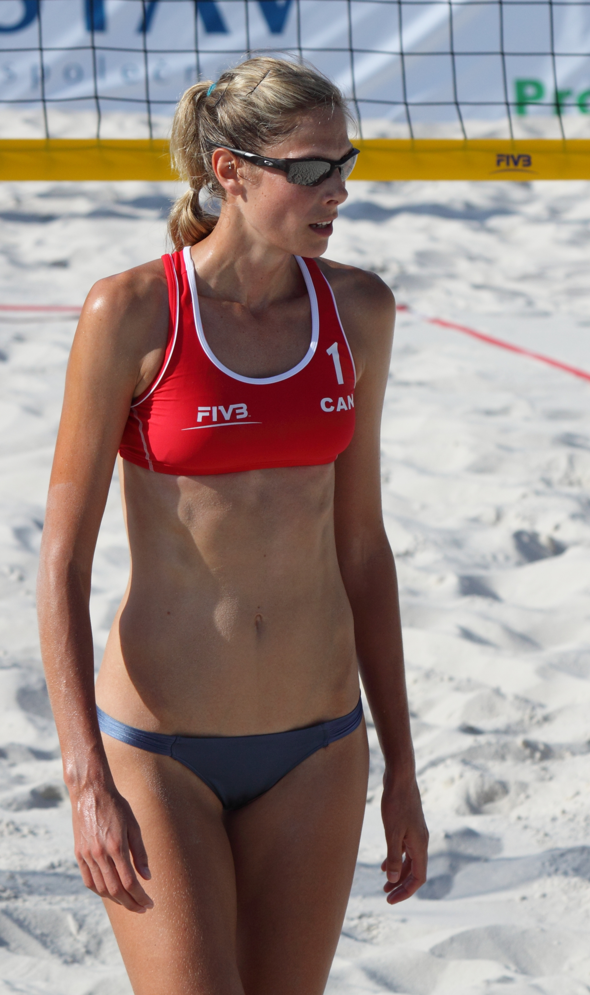 Sarah Pavanová at Patria Direct Open 2014 in Prague